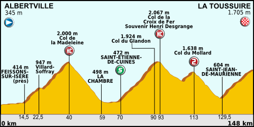 Profile of the 11th stage of the Tour de France 2012